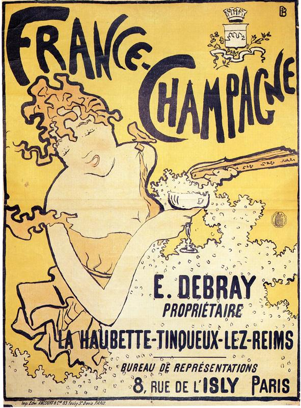 Painting by Pierre Bonnard